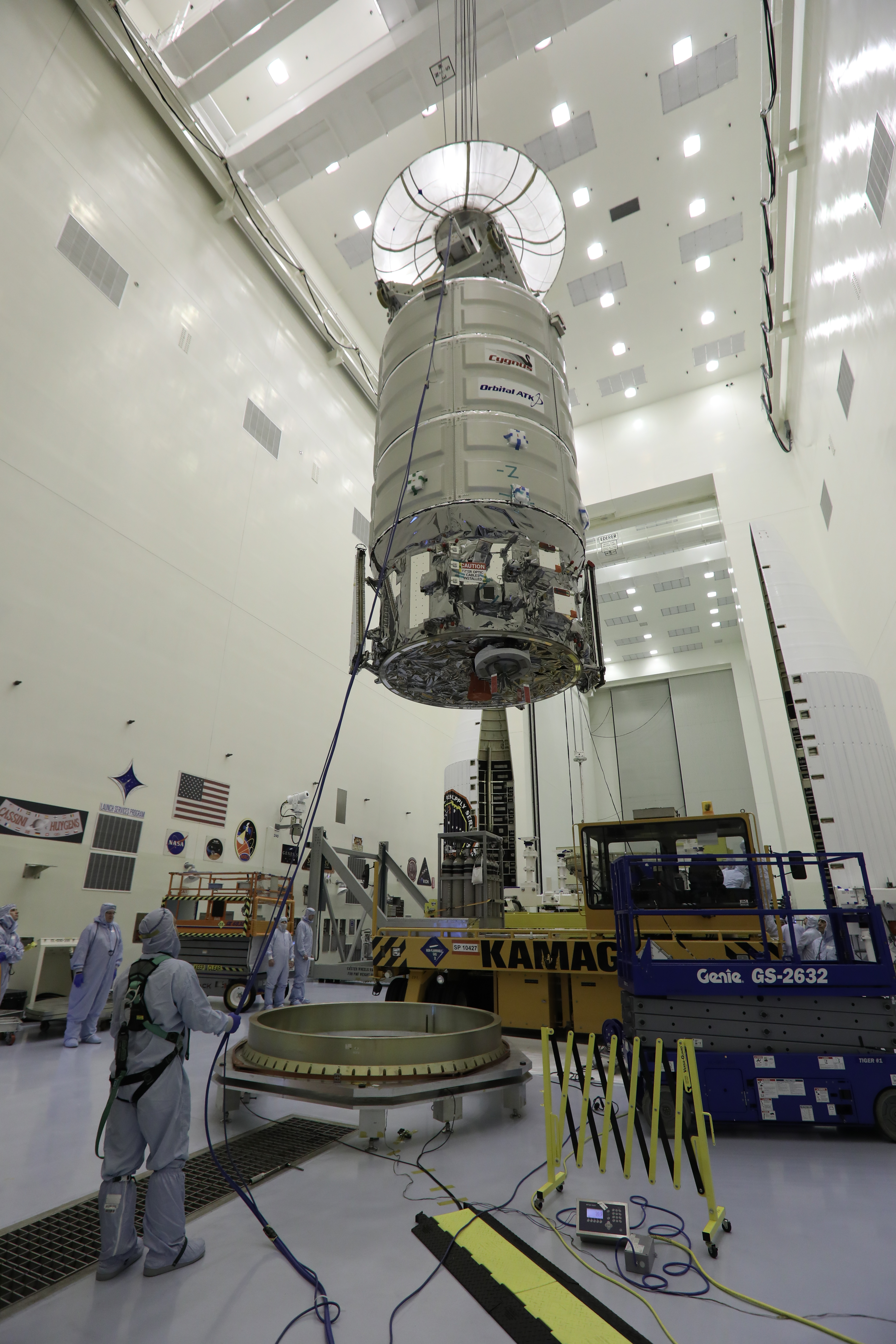 A crane lifts Orbital ATK's CYGNUS pressurized cargo module up and away from the KAMAG transporter inside the Payload Hazardous Servicing Facility at NASA's Kennedy Space Center in Florida. CYGNUS will be lowered onto a work stand for final propellant loading and late cargo stowage. The Orbital ATK CRS-7 commercial resupply services mission to the International Space Station is scheduled to launch atop a United Launch Alliance Atlas V rocket from Space Launch Complex 41 at Cape Canaveral Air Force Station on March 19, 2017. CYGNUS will deliver thousands of pounds of supplies, equipment and scientific research materials to the space station.